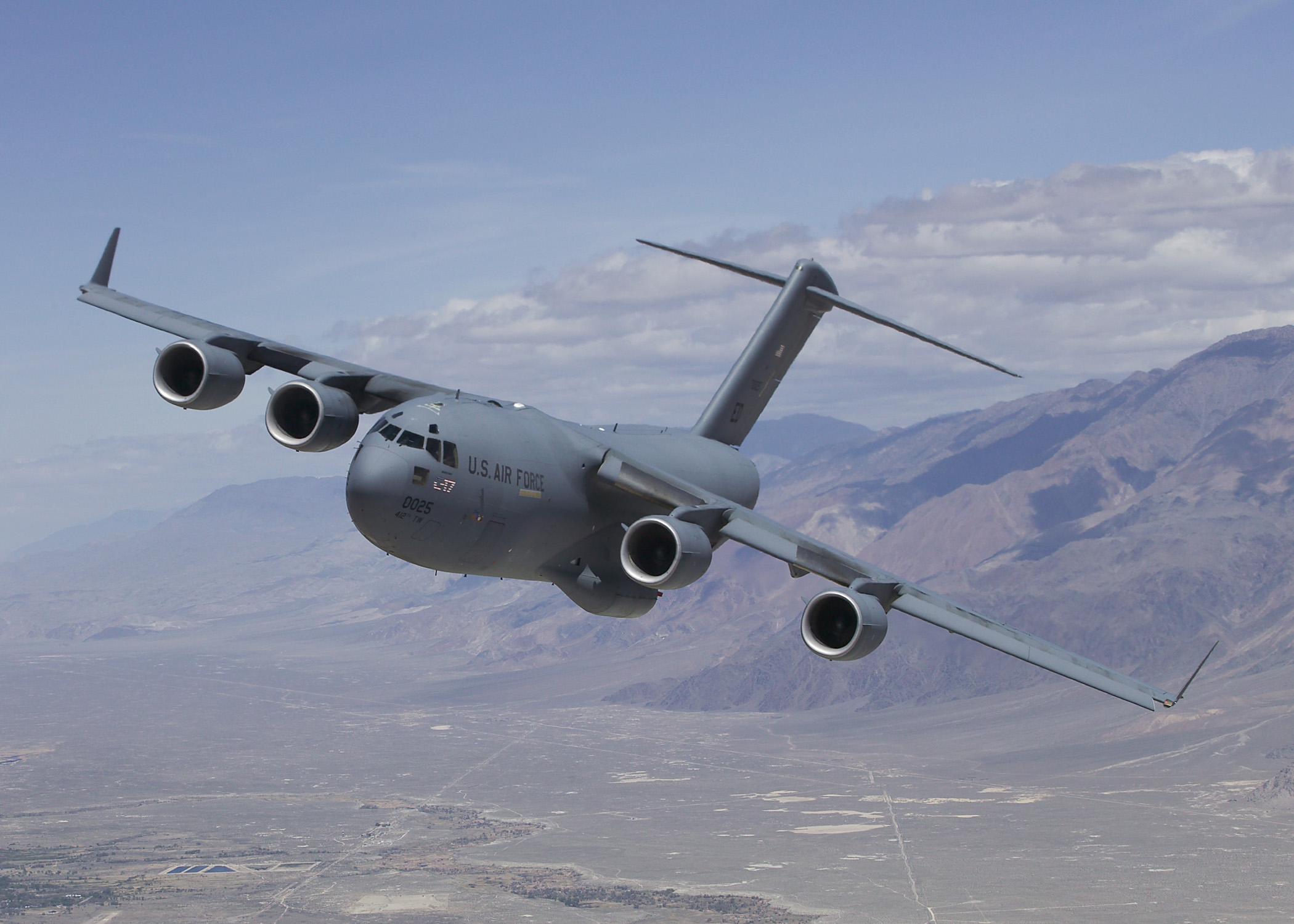 A U.S. Air Force C-17 Globemaster III T-1 flies over Owens Valley, California, for a test sortie. Edwards Air Force Base, California, welcomed home the aircraft after 208 days of life-extension modifications in San Antonio, Texas. The T-1 is the first Air Force C-17 built to perform developmental testing.